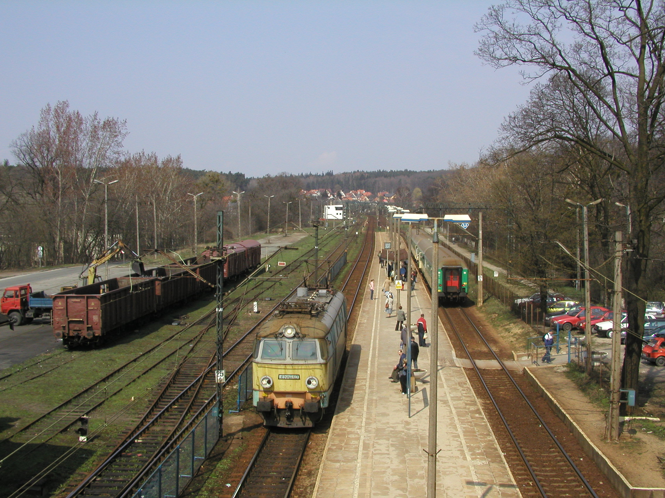 Railway station in Oborniki Śl. (Poland).